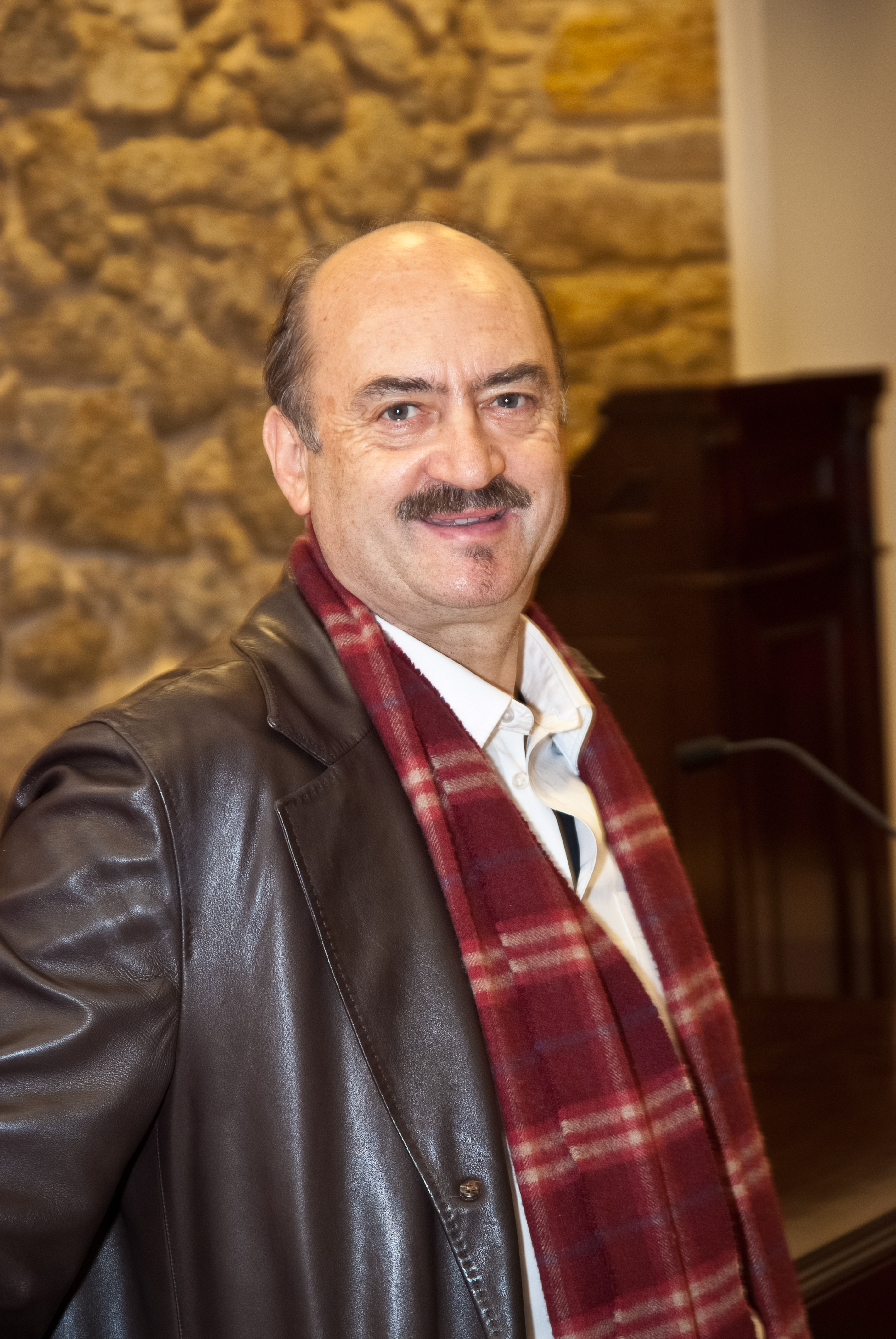 Photograph of Xulio L. Valcárcel